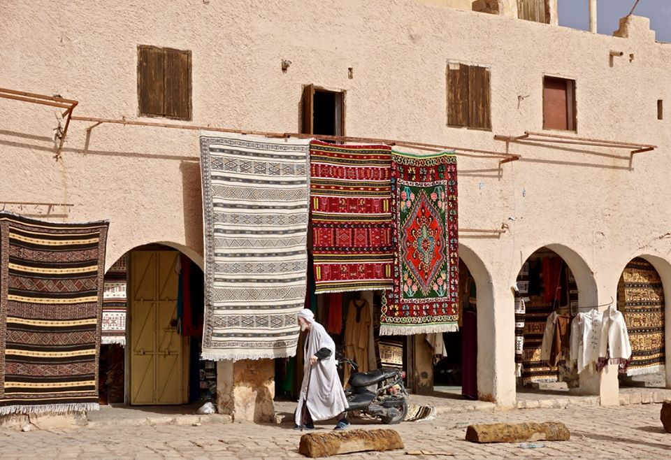 Ghardaia Souk